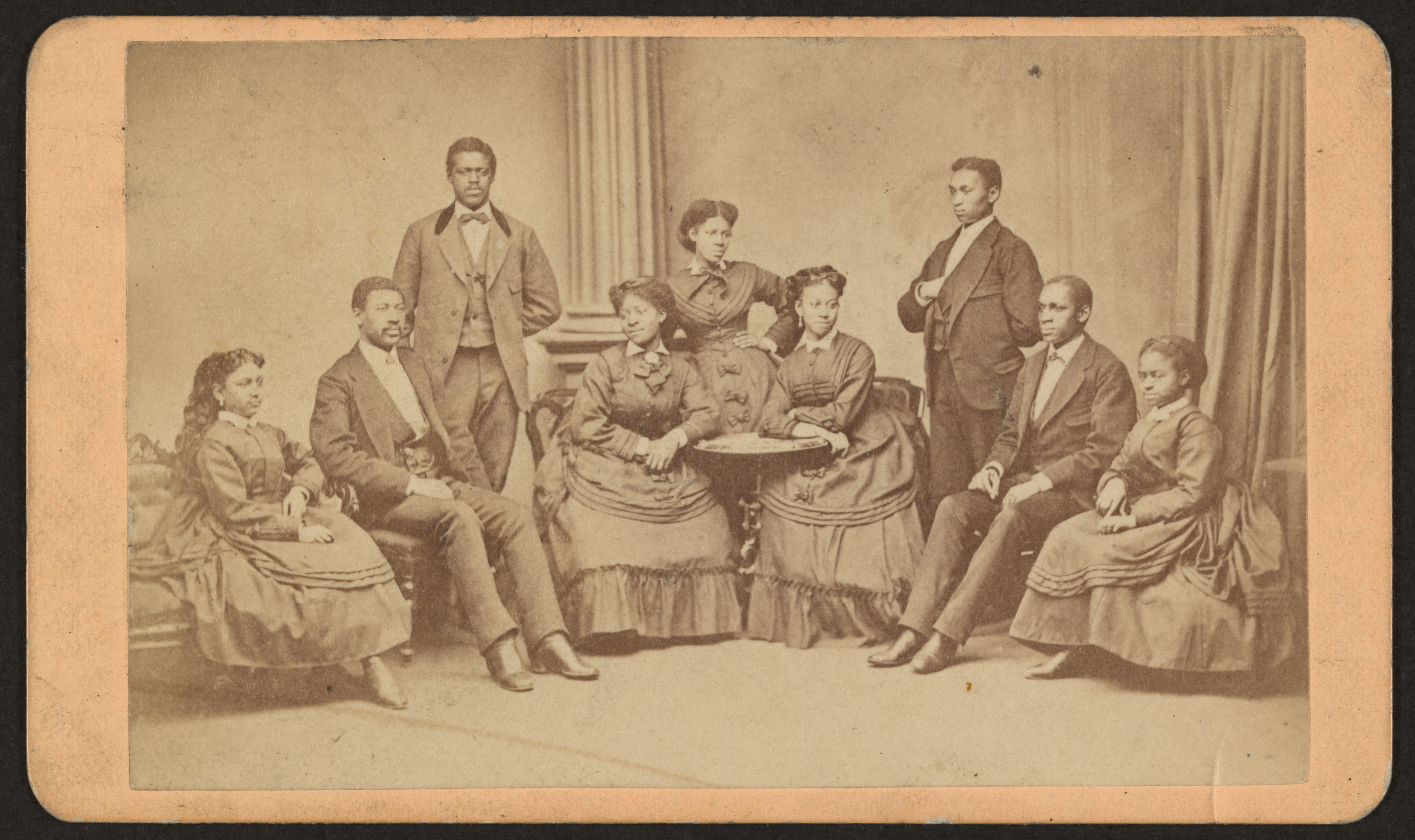 Title: Jubilee Singers, Fisk University, Nashville, Tenn. Abstract/medium: 1 photographic print on carte de visite mount : albumen ; 6 x 10 cm.